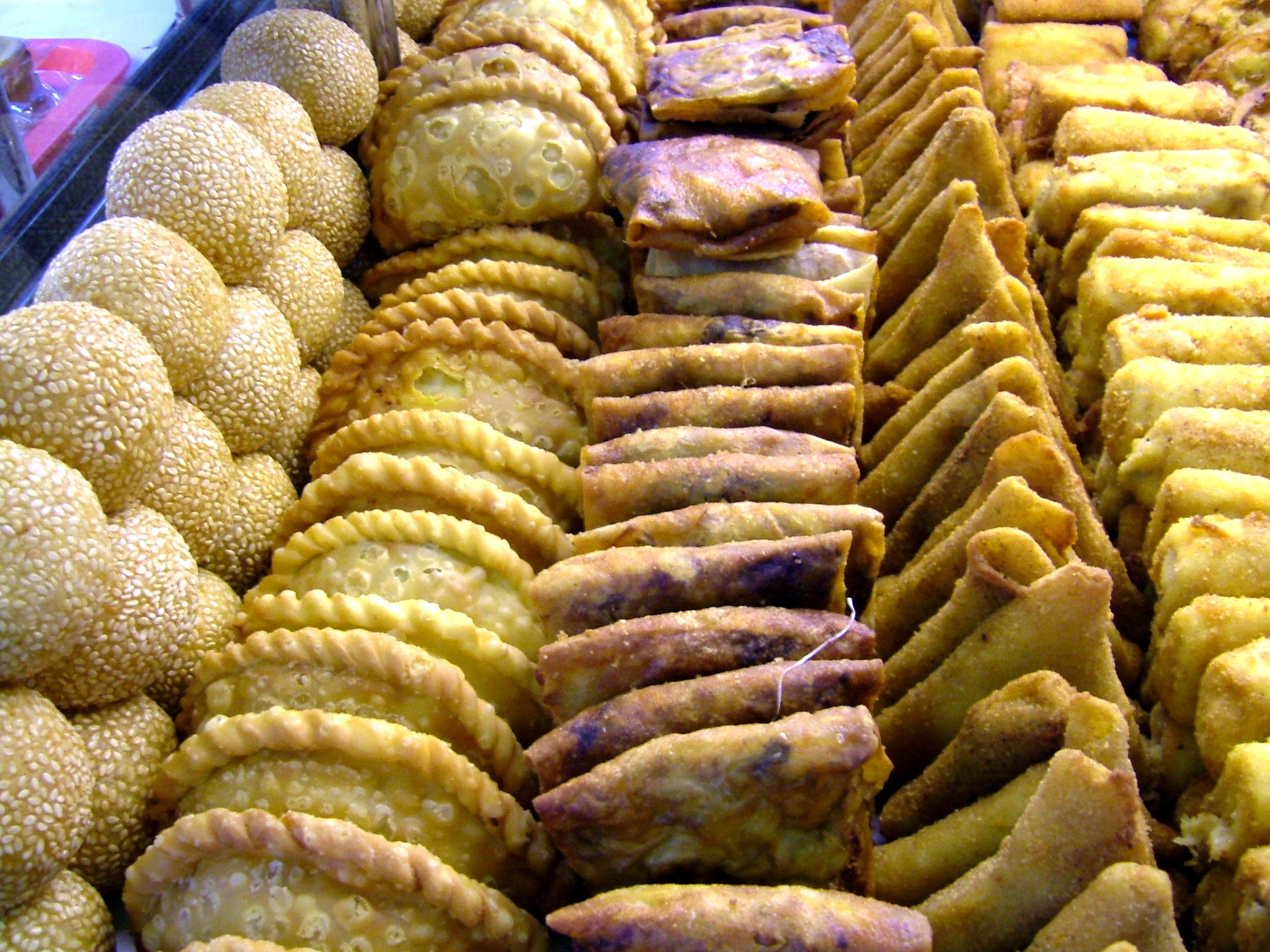 Indonesian fried snacks, from left to right: kue bola, pastel, martabak mini, risoles. インドネシアのスナック